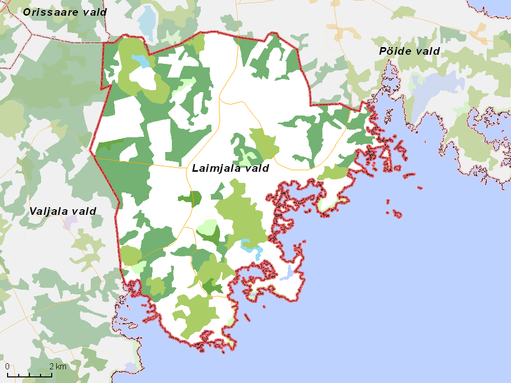 Map of municipality in Estonia